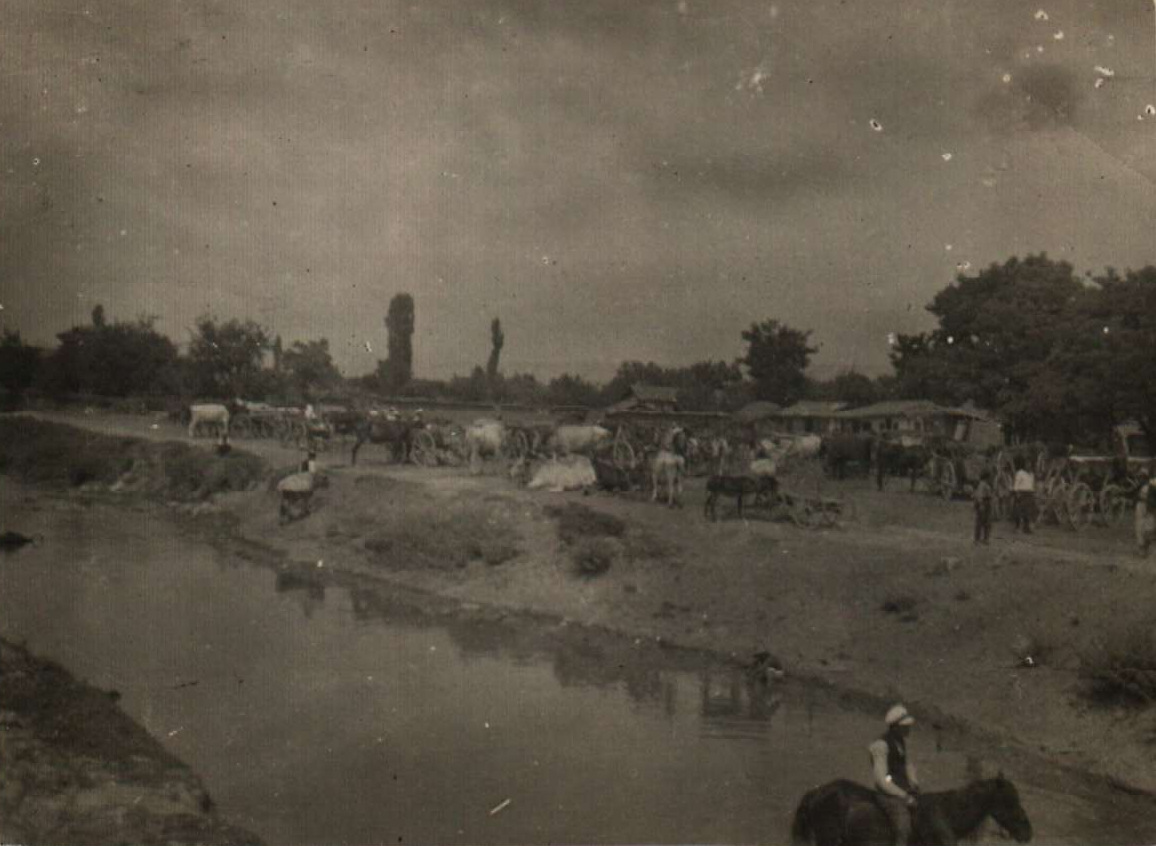 Market in Razgrad, Bulgaria